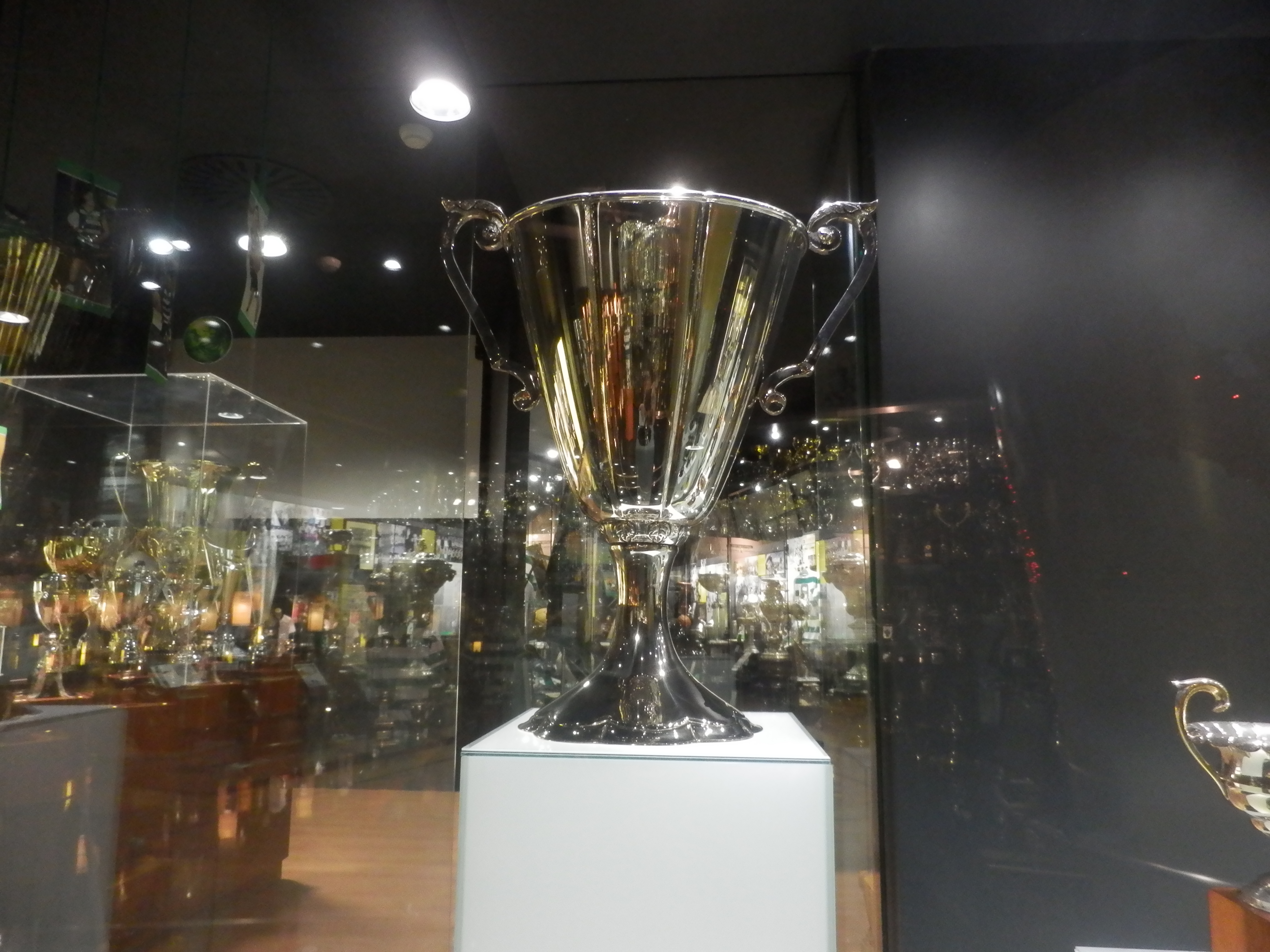 A close-up of the 1963–64 European Cup Winners' Cup